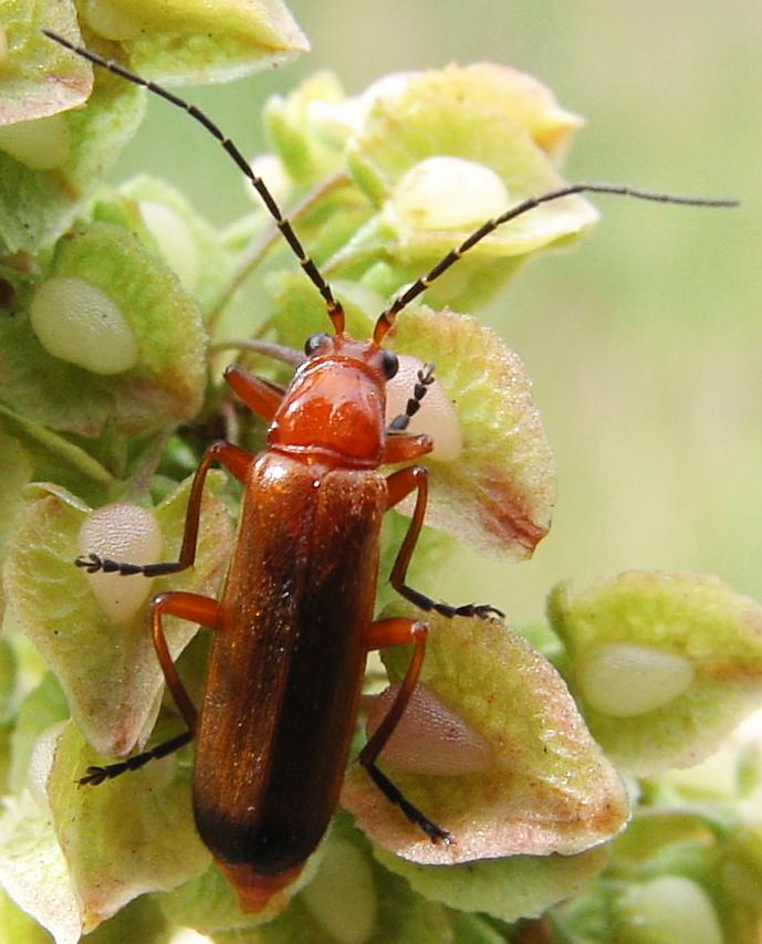 Common Red Soldier Beetle (Rhagonycha fulva) in Cologne, Germany.